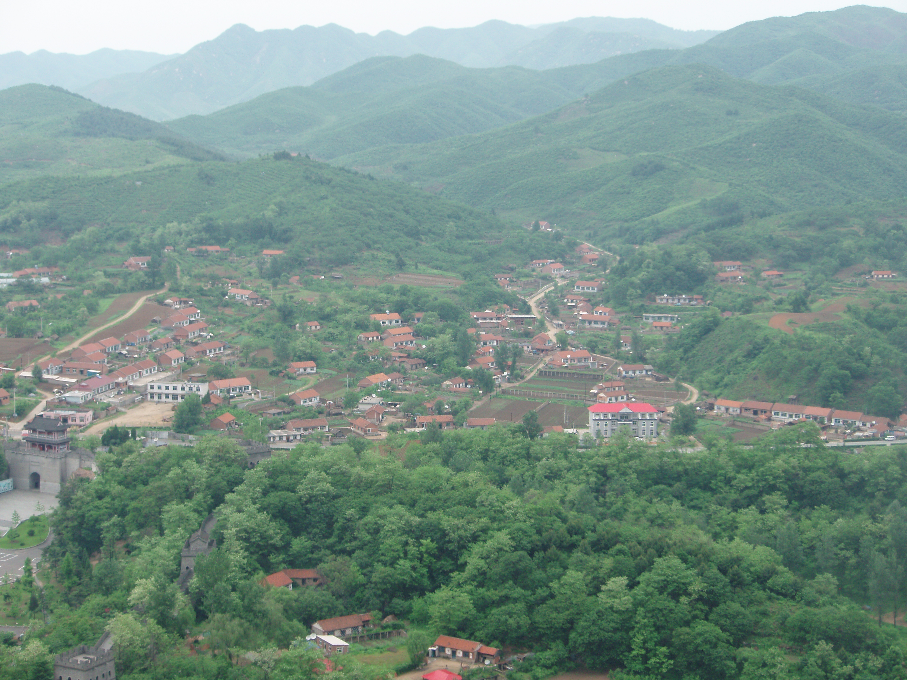 Farming Village outside Dandong, China and Hushan Great Wall